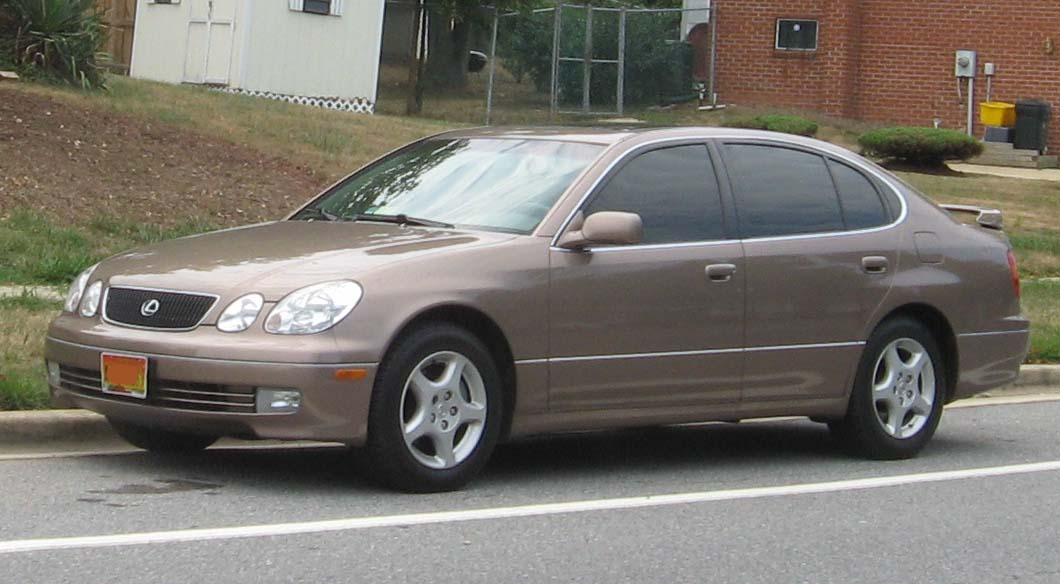 1997-2000 Lexus GS photographed in USA.